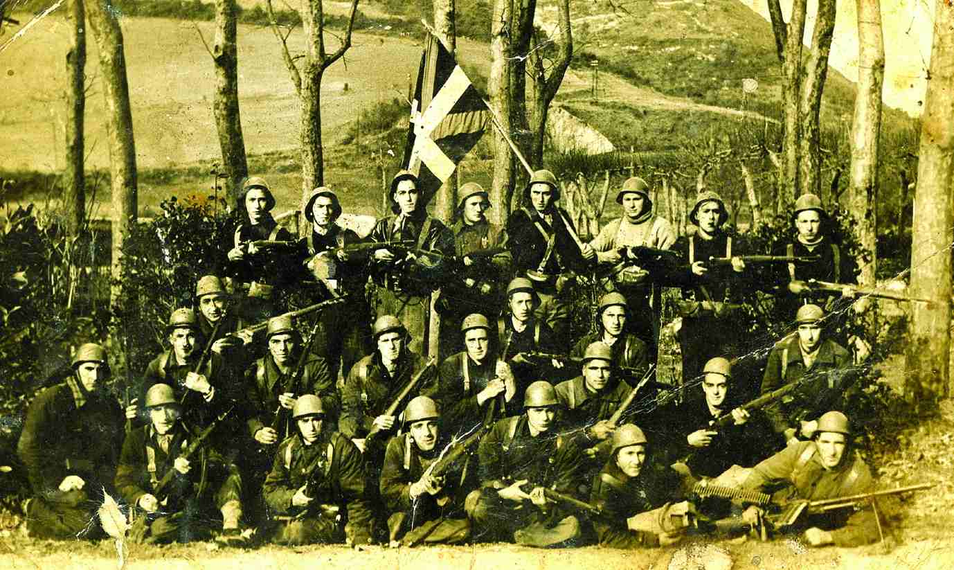 Amaiur Batallion of Euzko Gudarostea or Basque Army. Spanish Civil War. Biscay, 1937. Basque Country.